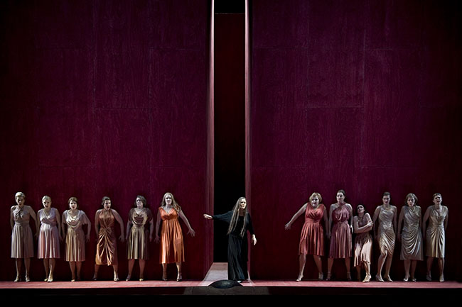 Katarina Dalayman as Elektra and the Royal Swedish Opera choir 2009